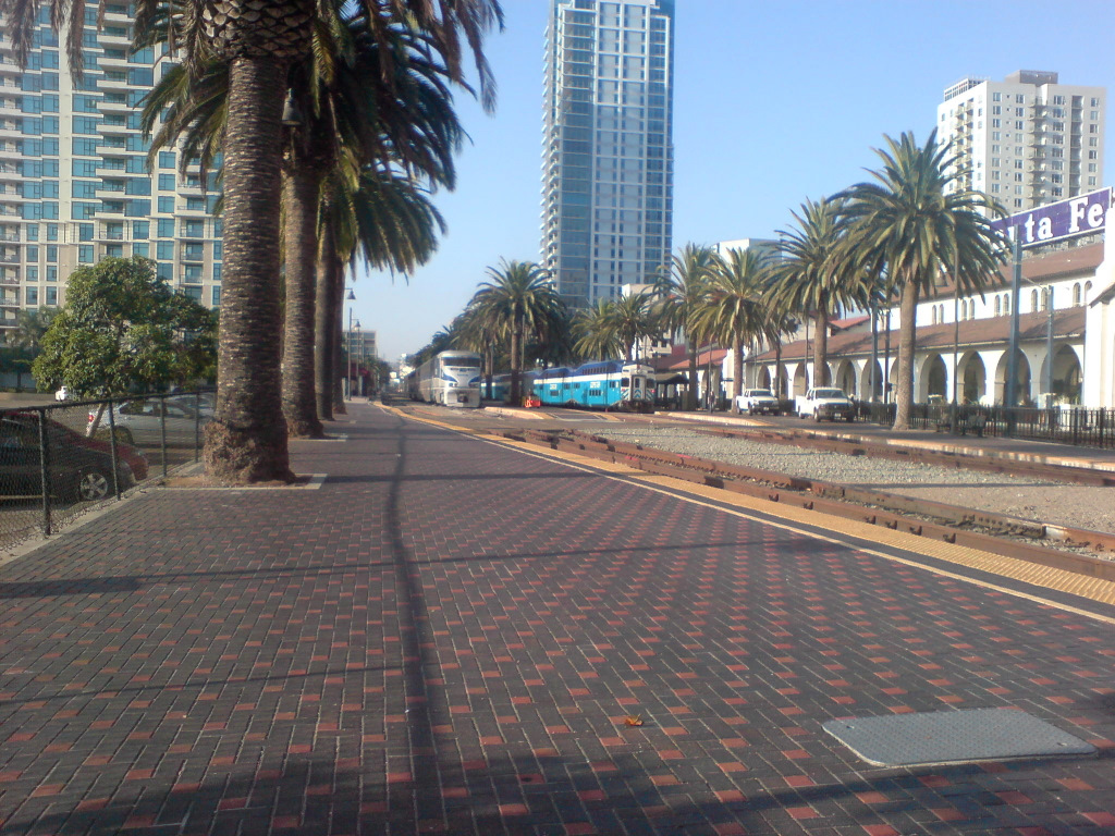 Railway platforms of Santa Fe.